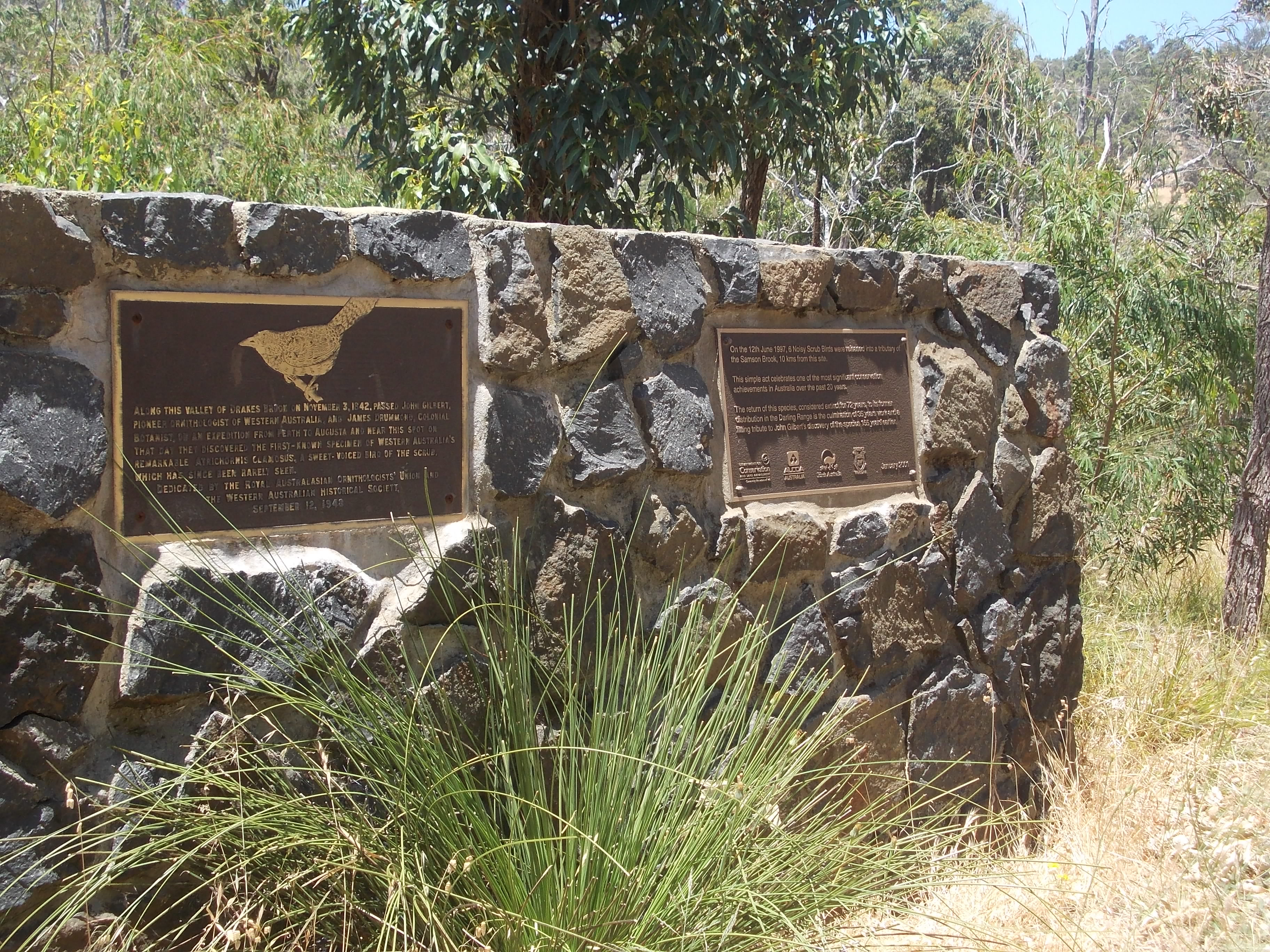 From Wikipedia Takes Waroona Memorial to James Drummond and John Gilbert , atrichornis clamosus first discovered 1842. presumed to have been extinct since 1900's until it was discovered near Albany 1960 and in 1997 were reintroduced into this area